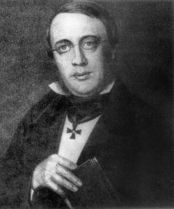 German and Russian historian Friedrich Lorenz (1803-1861)